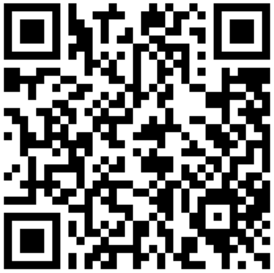 A WhatsApp click-to-chat QR code to a test account. You can directly start a WhatsApp converstation without having the phone number in your address book by opening a special link containing the phone number. This or this link for example will start a chat with the text "My test message is:". The URL can be shortened by replacing " with "wa.me/". The QR code will open this wa.me example link, which will automatically expand to the full link above. The QR code was generated with for more info on how to use click to chat.